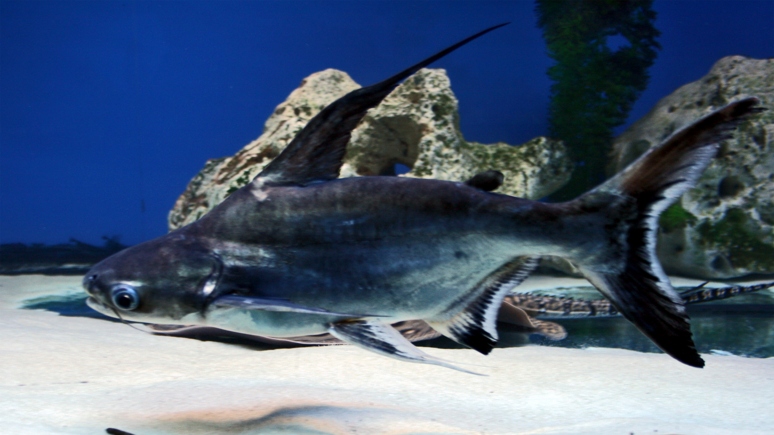 Fish Pangasius sanitwongsei, Pangasius sanitwongsei in Prague sea aquarium, Czech Republic